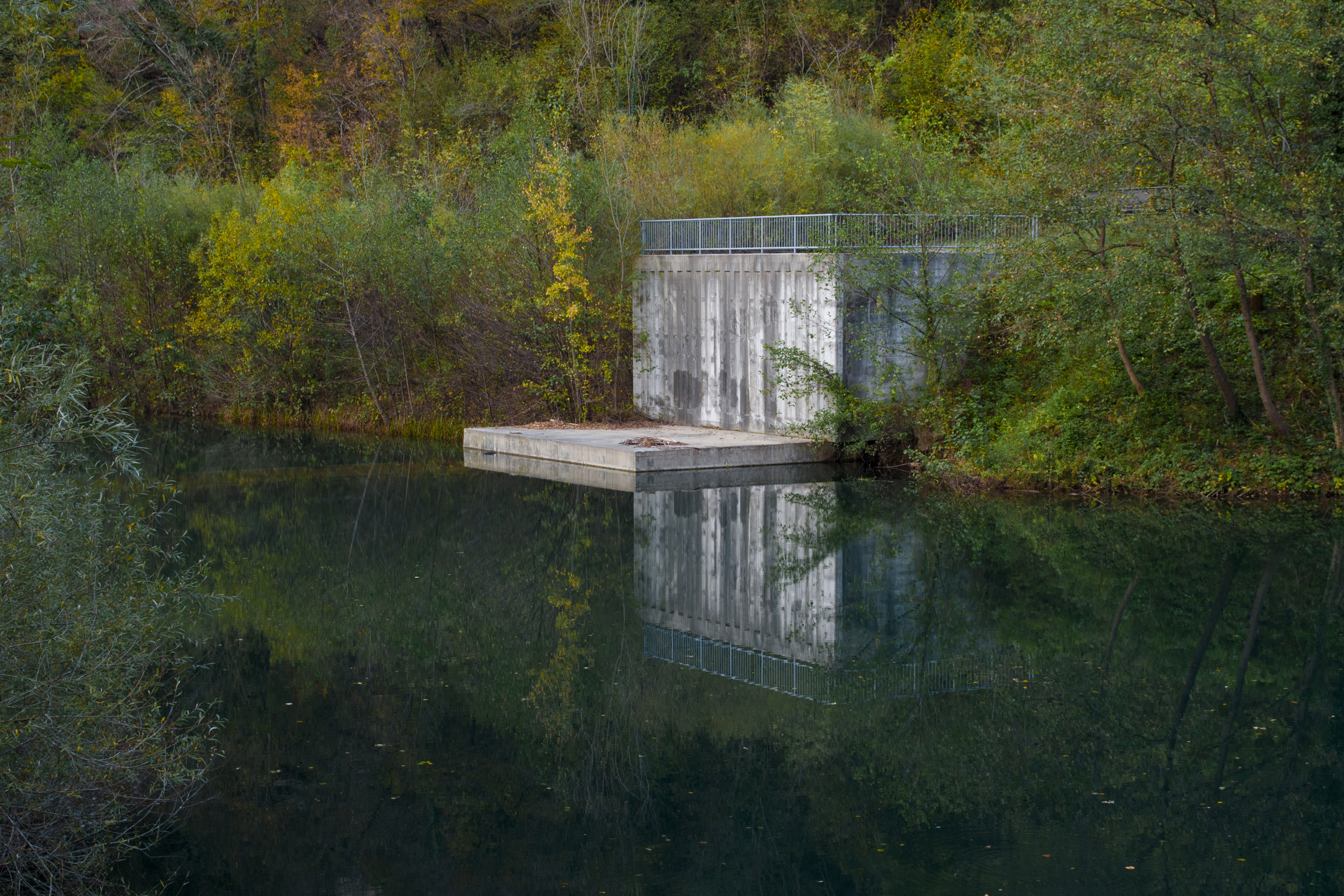 old view ~ please press here